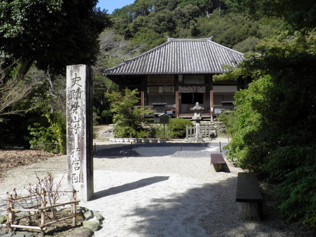 Eisan-ji temple in Gojō, Nara Prefecture